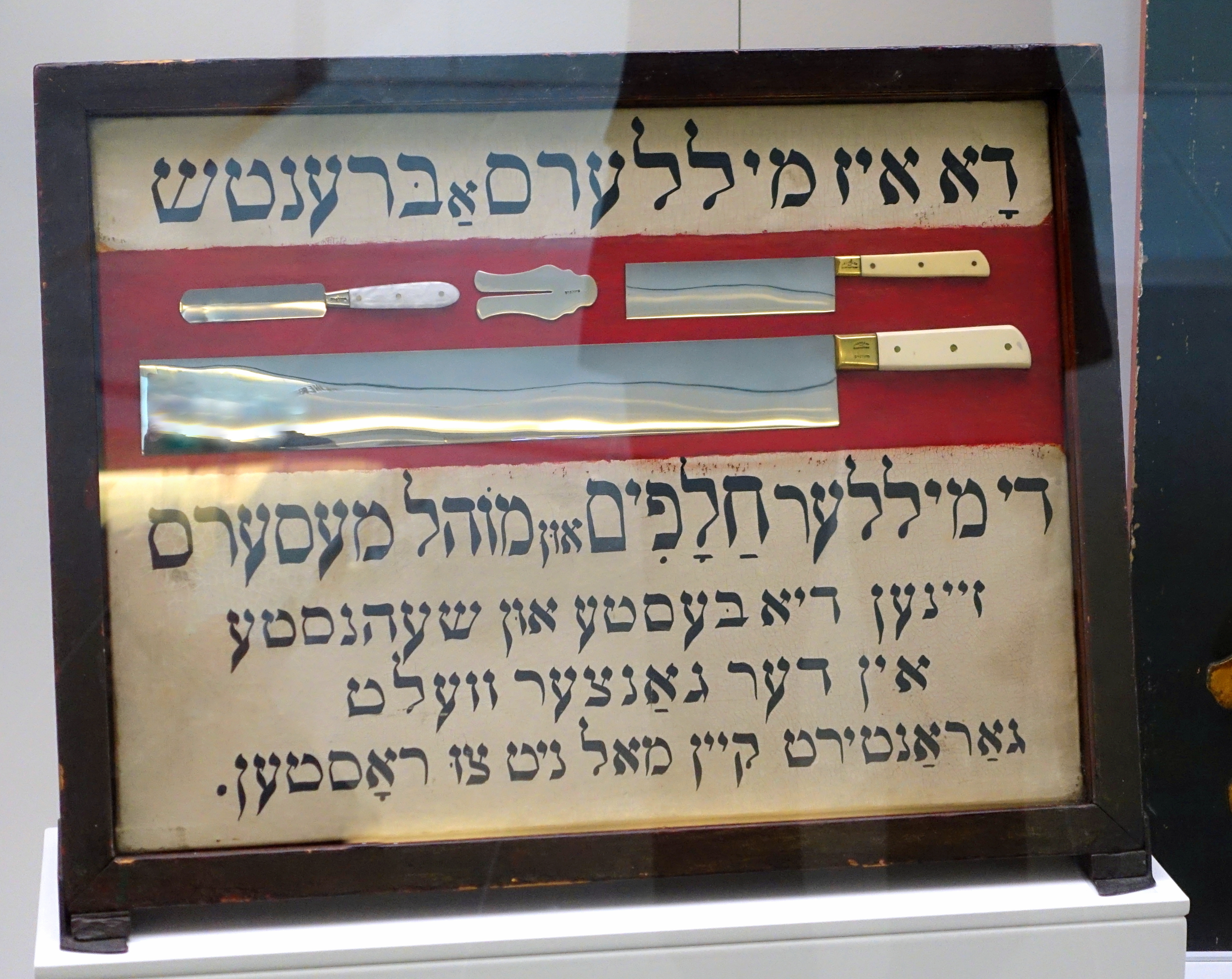 Exhibit in the National Museum of American History, Washington, DC, USA.